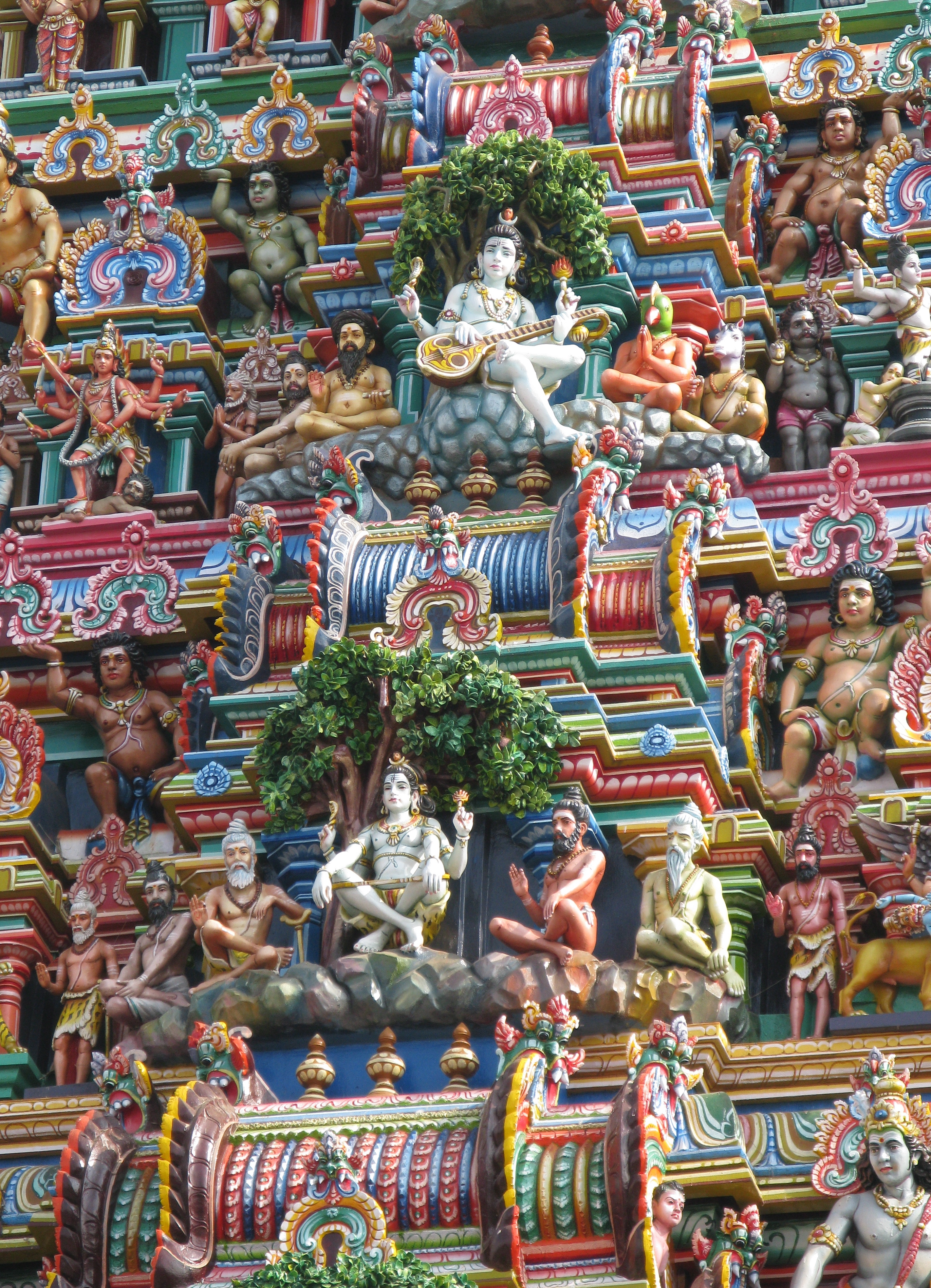 Kapaleeshwarar Temple, Chennai, March 2008